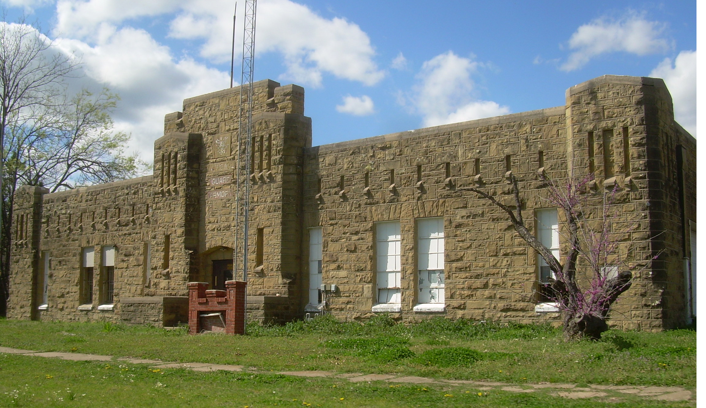 Wagoner Armory — in Wagoner County, Oklahoma.